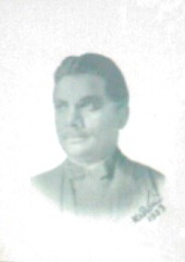 Syed Amir-uddin Kedwaii, who helped design the flag of Pakistan